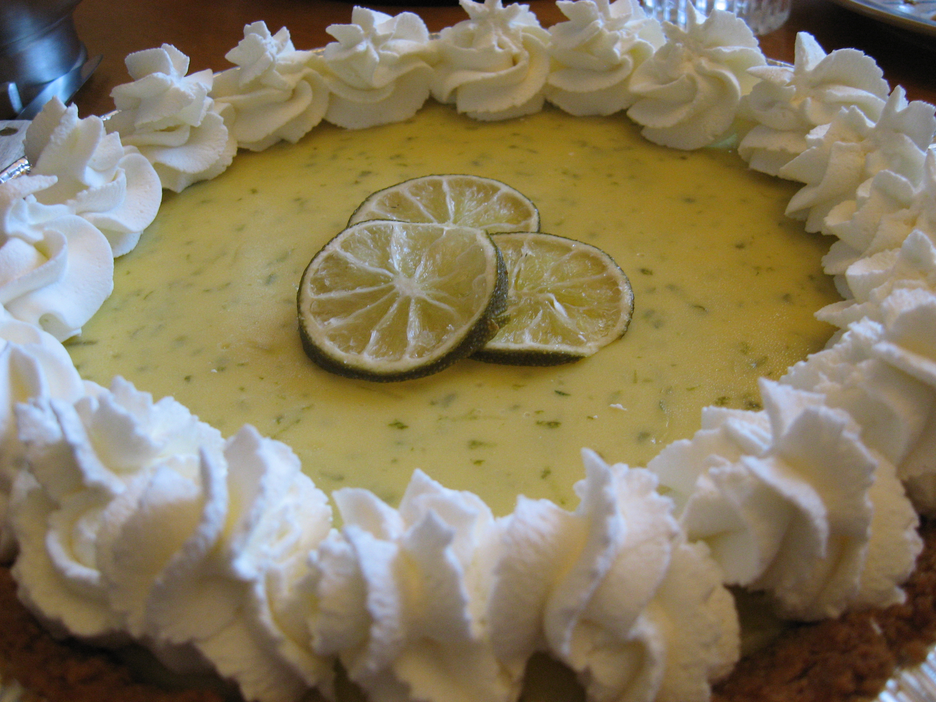 Key lime pie with whipped cream.